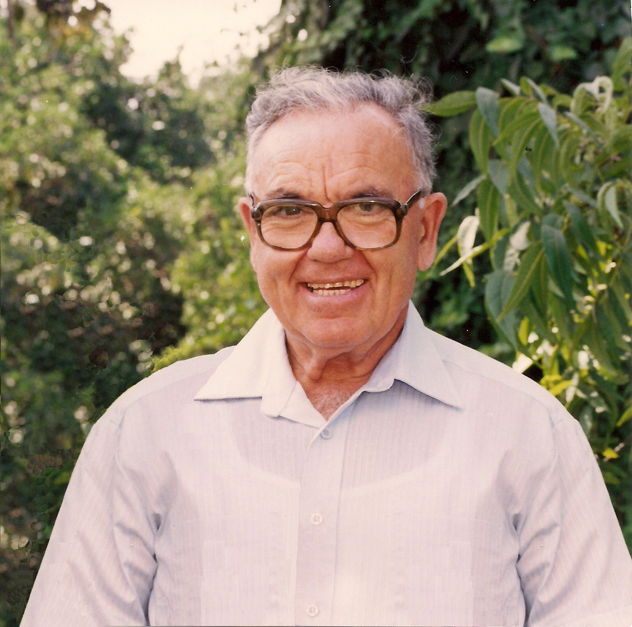 Yosef Menachem Margalit (1925-2008), Israeli journalist, editor, author, educator, children's writer, Hebrew linguist and a farmer in moshav Kfar Malal